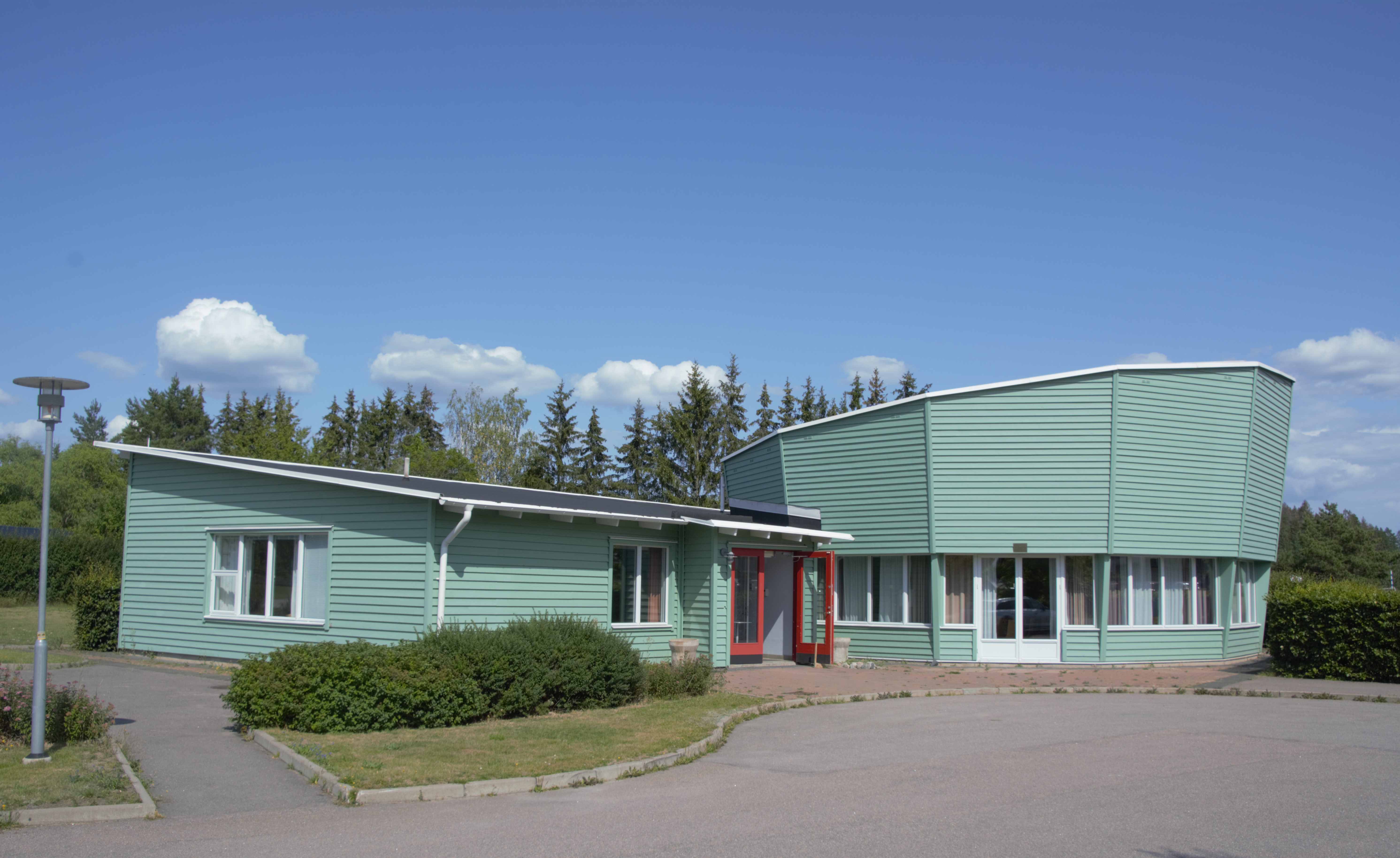 Wattrangsborg, community house in Björnlunda, Sweden